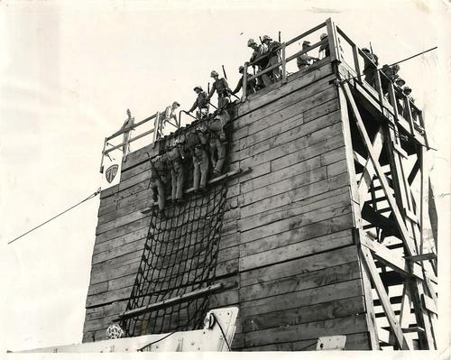 Marines of 2d ANGLICO based in Chicago, IL practice "dry net" training.